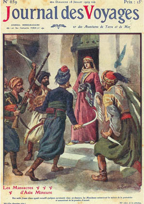 Massacres in Asia Minor, Adana, 1909 “Journal des Voyages”, Number 659, Paris, July 18, 1909